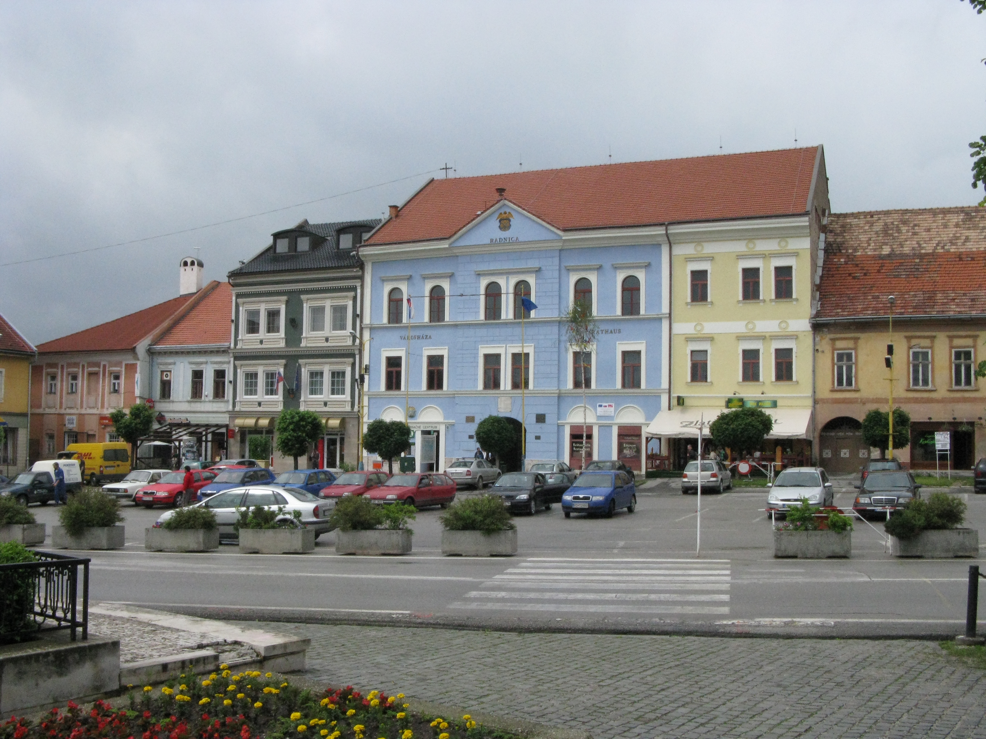 Market Square and City Hall in Rožňava